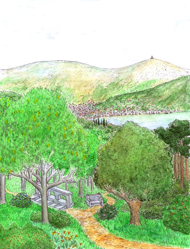 Nísimaldar, the region of Númenor.